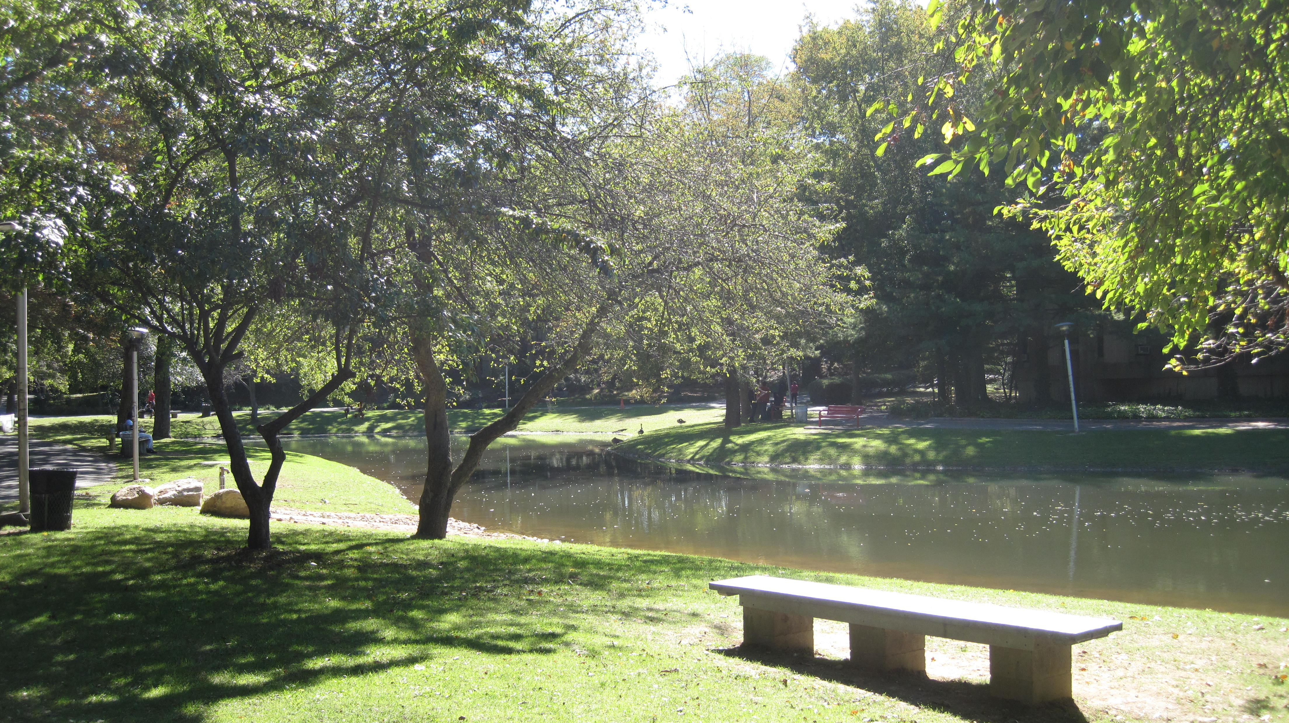 Stony Brook Roth Quad Pond